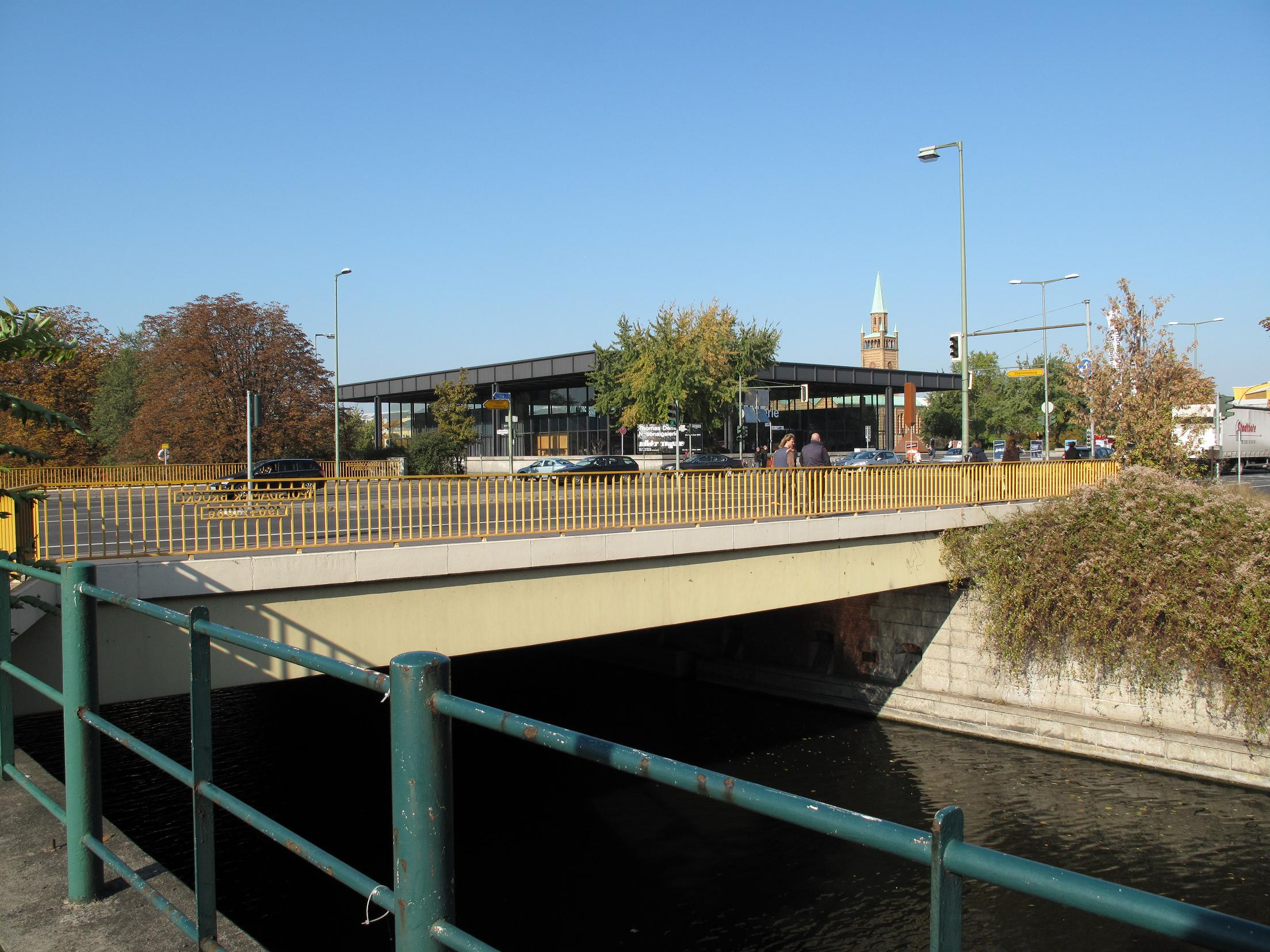 The Potsdamer Brücke is crossing the Landwehrkanal (canal) in Berlin-Tiergarten, Germany. The bridge was new built in 1968 and is a part of the Potsdamer Straße. In the background the Neue Nationalgalerie.